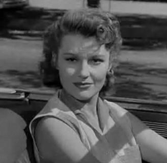 Dianne Foster in Drive a Crooked Road (1954) - trailer (cropped screenshot)